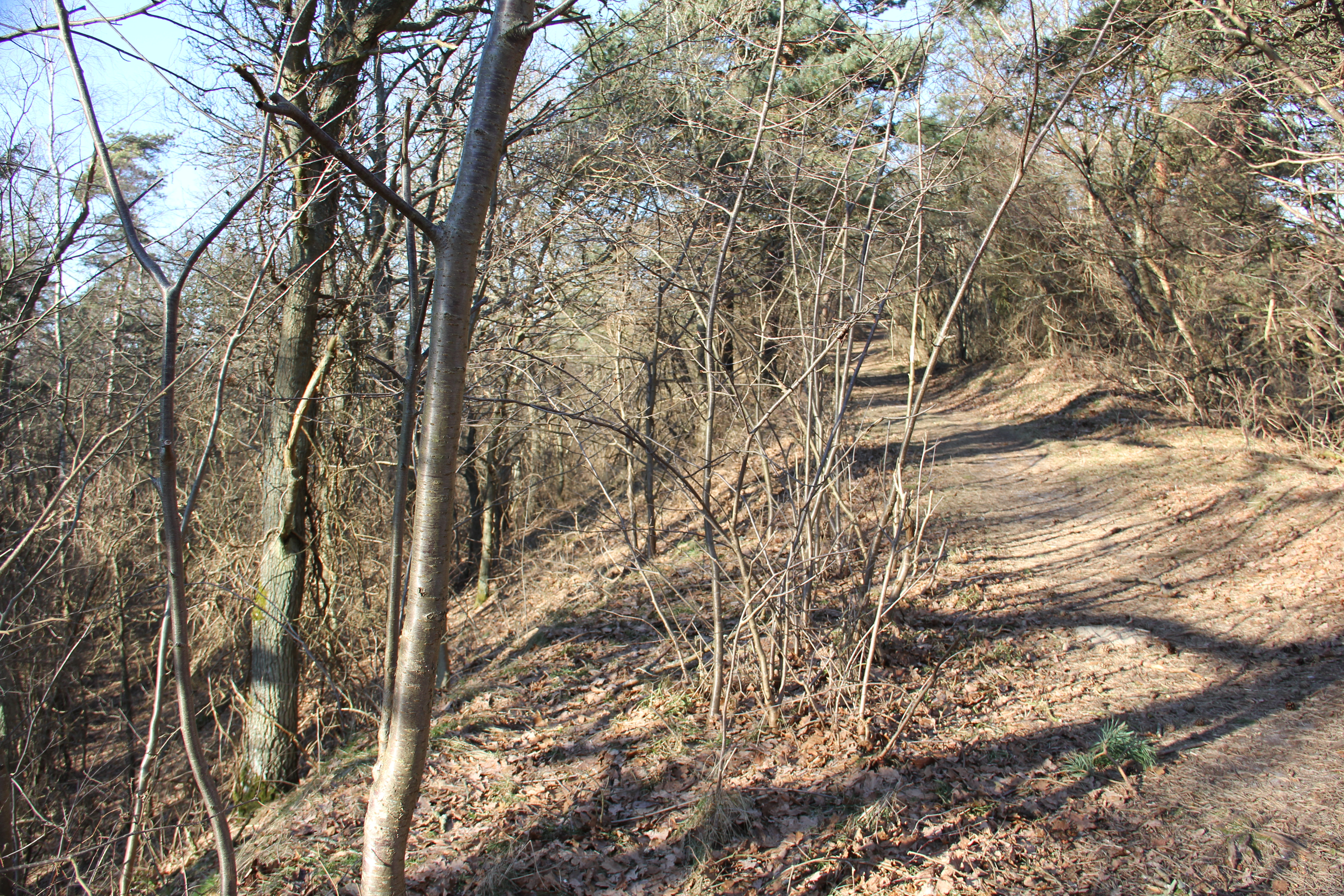 High sand at Rorvig, DK